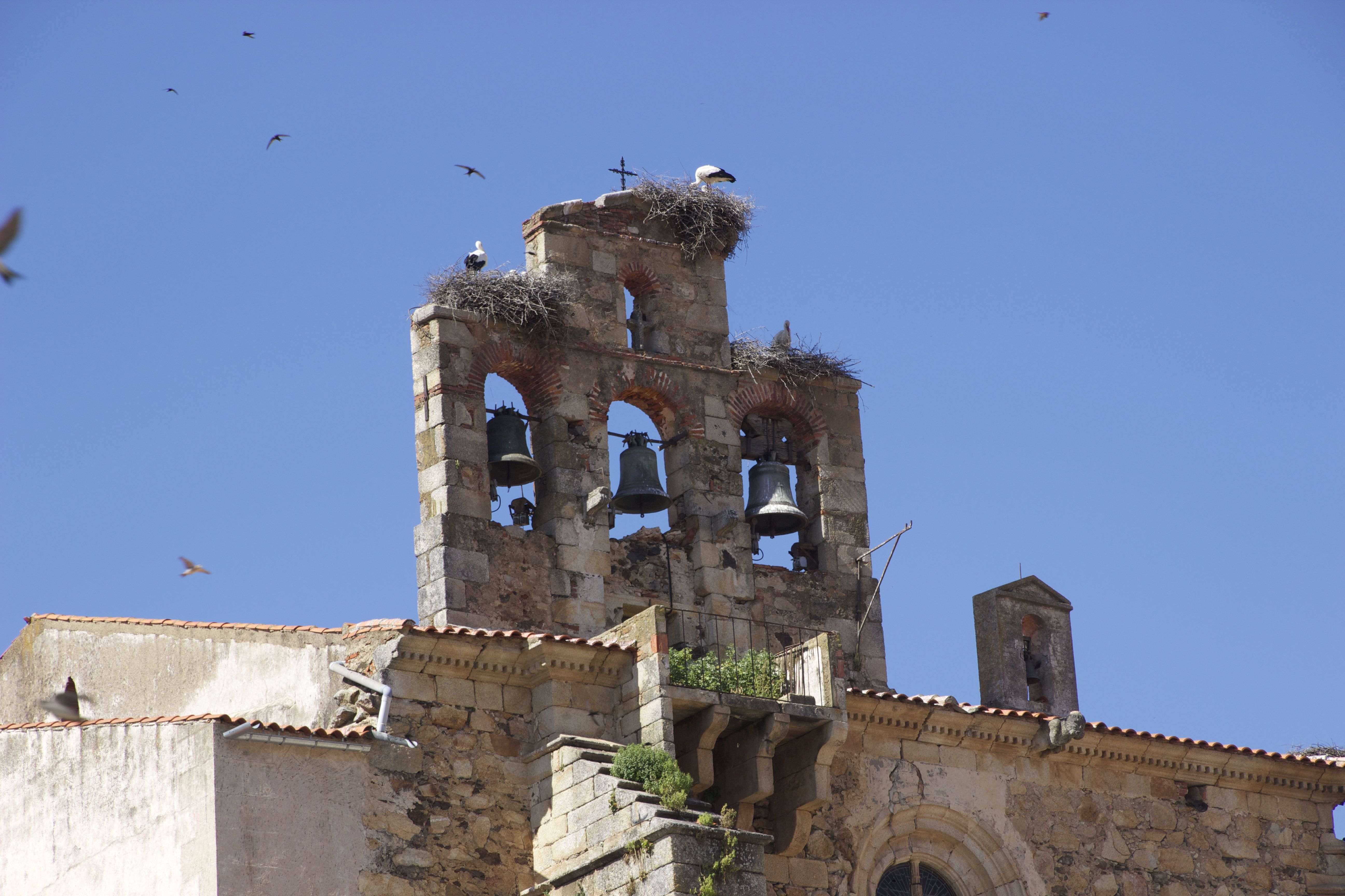 Bells of the church "Iglesia de San Mateo"